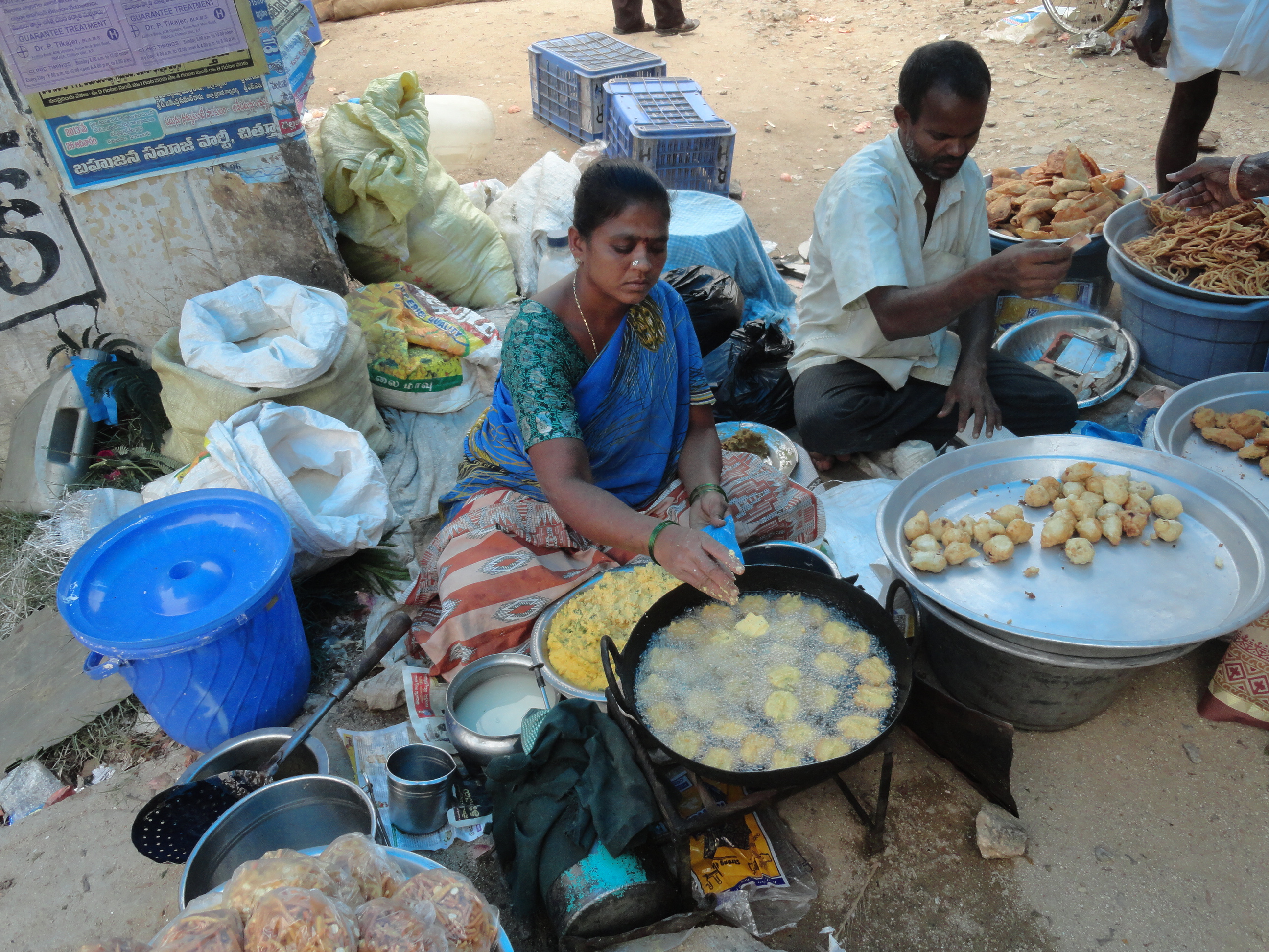 వడలు కాల్చడము. పాకాల సంతలో